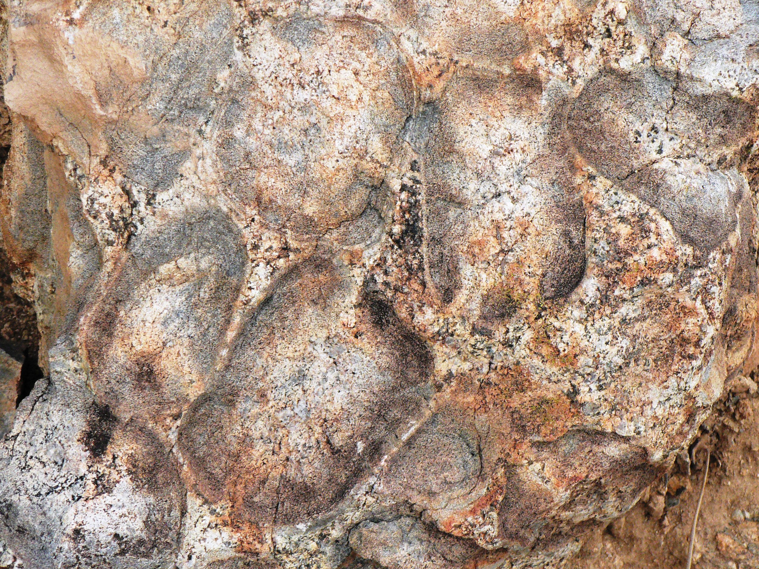 An unusual exposure of orbicule formations. Orbicules are spherical, layered formations that can occur in igneous rocks, in this case granite. This media shows a South African Protected Site with SAHRA file reference 9/2/066/0010.